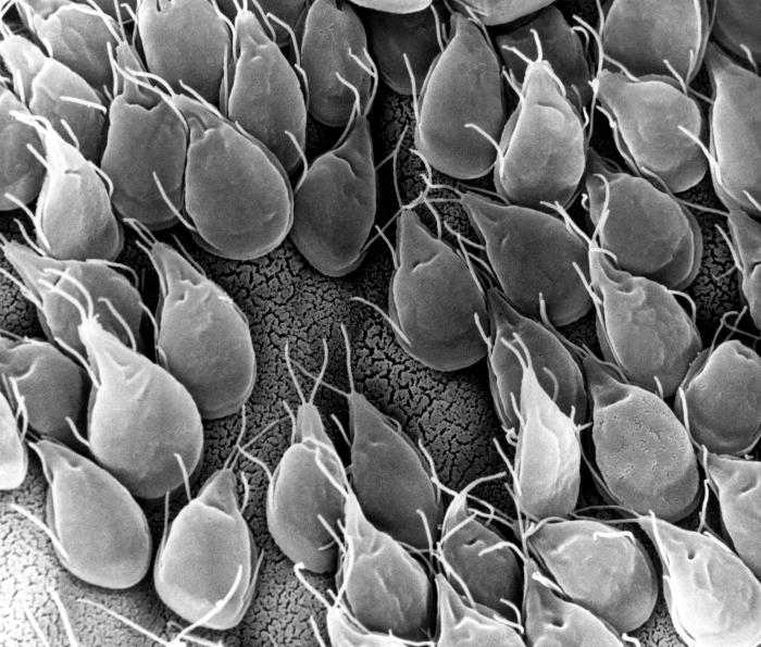 A scanning electron micrograph of the surface of the small intestine of a gerbil infested with Giardia sp. protozoa. The intestinal epithelial surface is almost entirely obscured by the attached Giardia trophozoites.